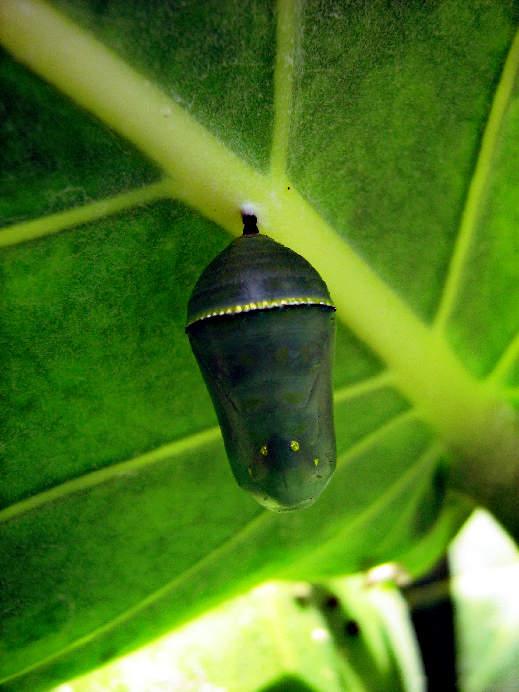 Cocoon of a Monarch Butterfly. Libya.